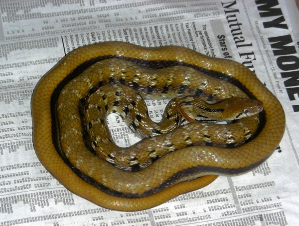 Trinket Snake Elaphe helena Family Colubridae, Serpentes. Image taken in Binnaguri, North Bengal, Dooars, India in November 2006. Specimen rescued and later released. Self-work.